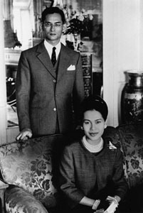 Adulyadej Bhumibol, & Sirikit